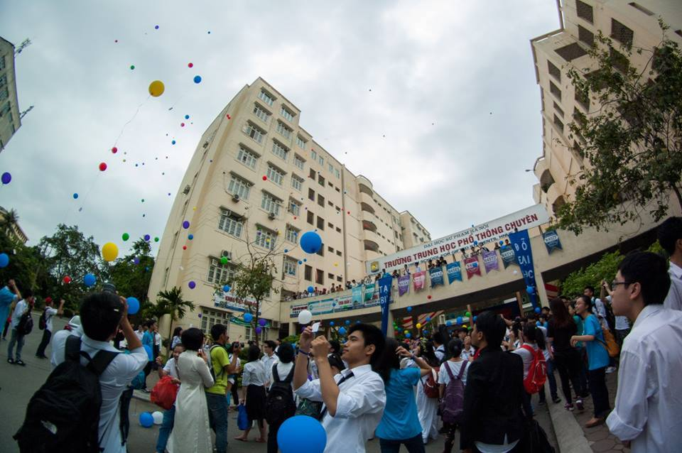 Closing Ceremony of AY 2013-2014 at HNUE High School